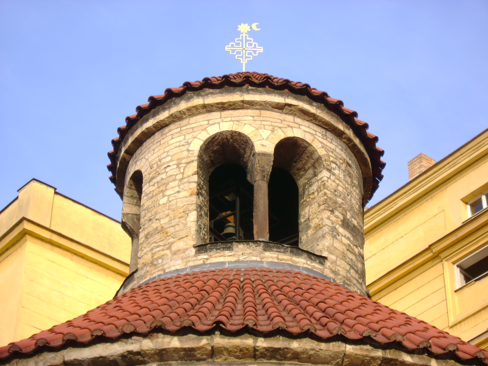 Romanesque rotunda of the Holy Cross in Prague, Old Town – detail of a lantern.